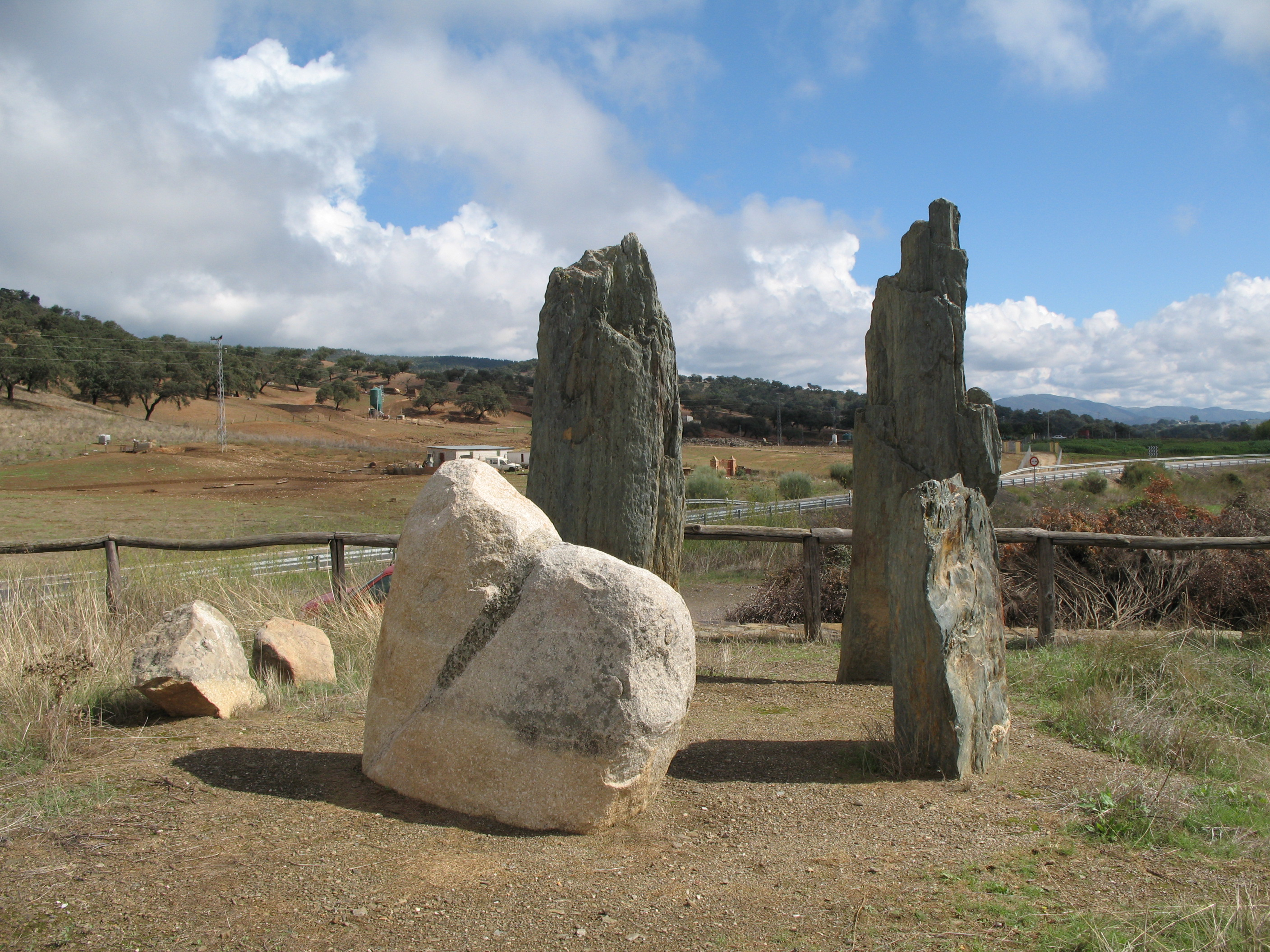 Stone circle in La Posada del Abad, Andalusia.